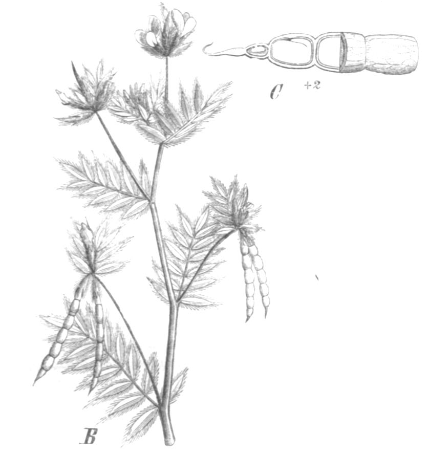 Illustration from book